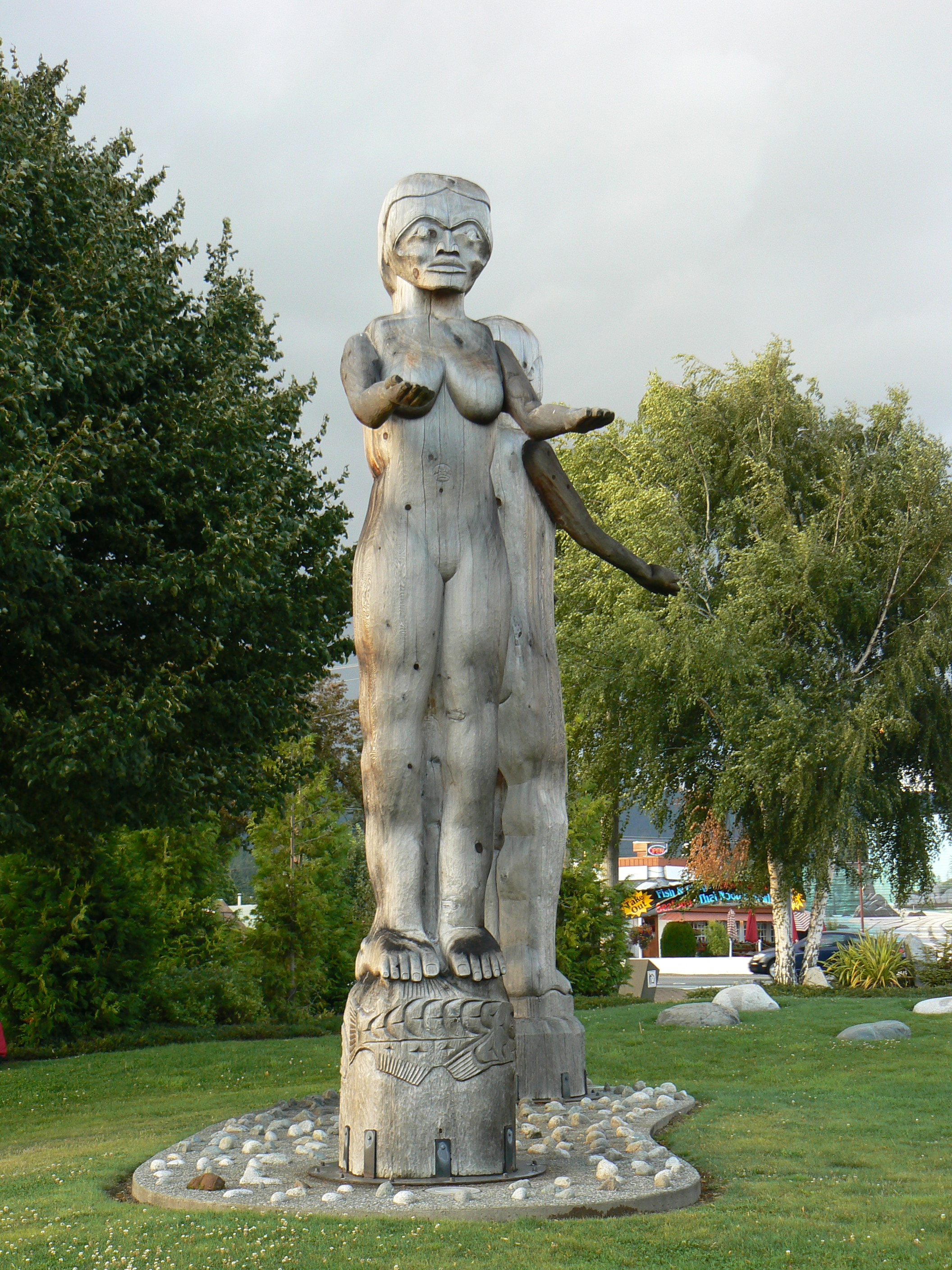 Welcome Figures created by Hupacasath carvers at the foot of Johnson Street in Port Alberni, B.C.